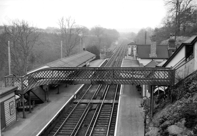 Balcombe Station. View northward towards London, on Brighton Main Line.